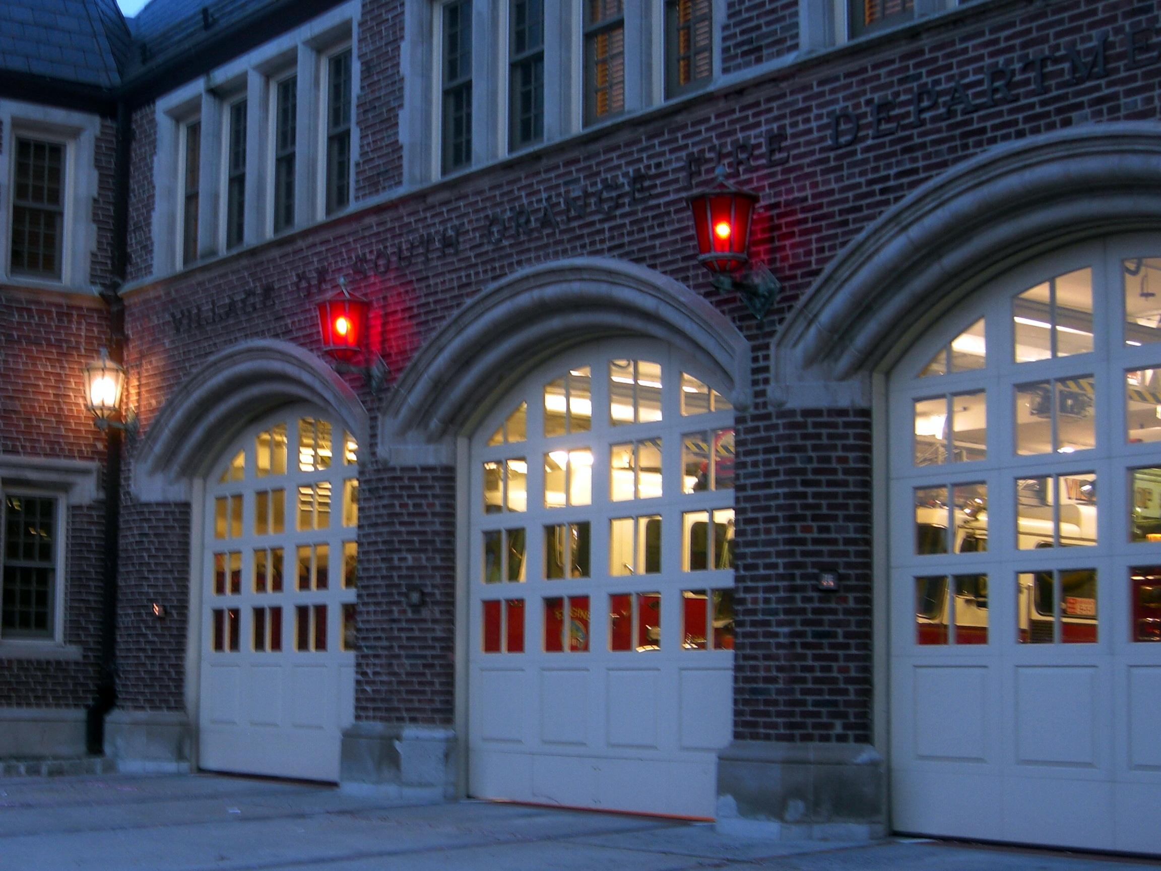 The South Orange Fire Department